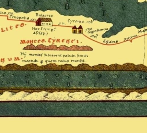 Part of Tabula Peutingeriana, konrad miller´s facsimile from 1887 . Shown in the image the town Balagrai or Balacris (Al Bayda City now).